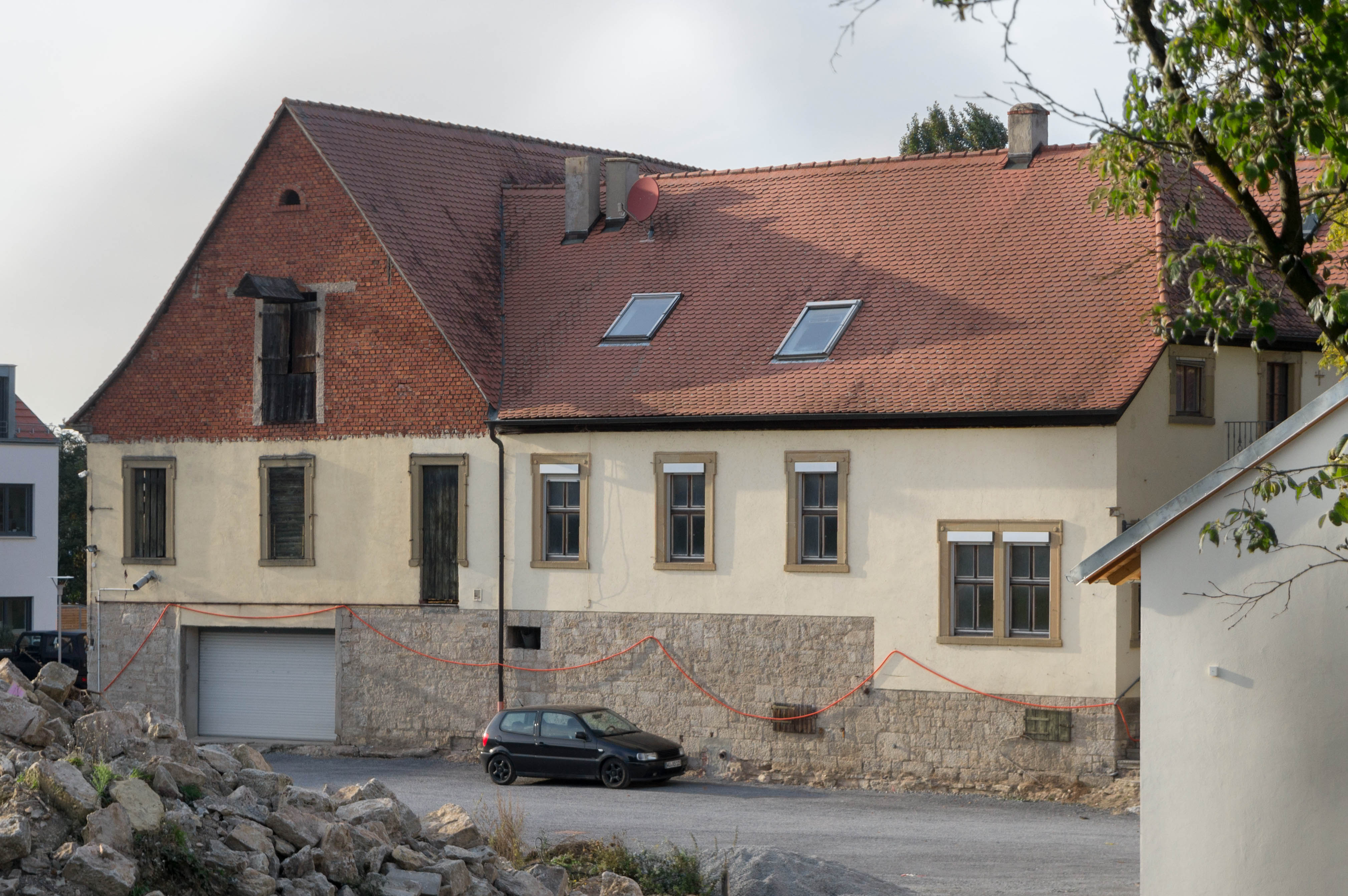 This is a photograph of an architectural monument.